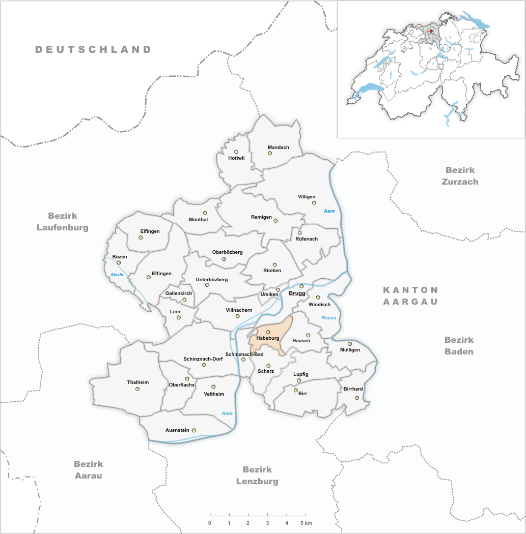 Municipality Habsburg